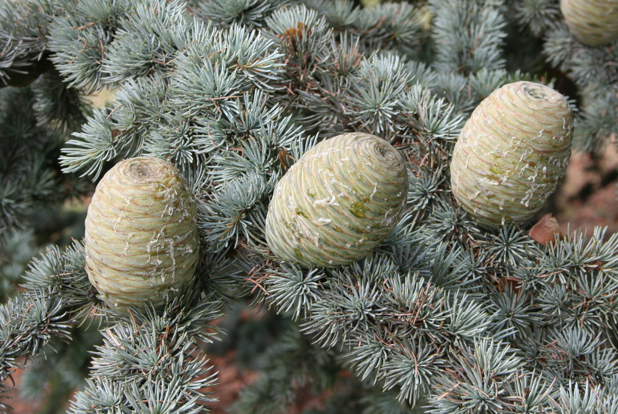 Atlas cedar cones (Cedrus libani var. atlantica) in a park near Massy, France.